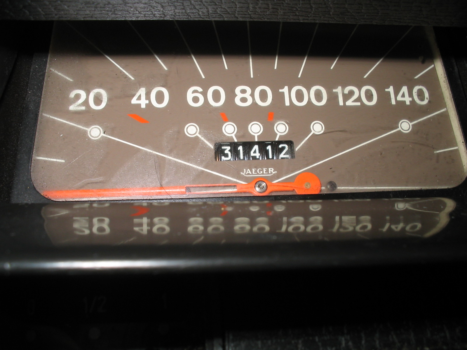 odometer/speedometer Citroën Acadiane